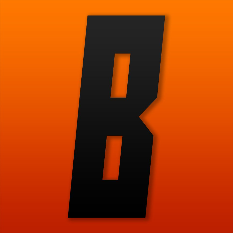 Logo of BadComedian YouTube channel